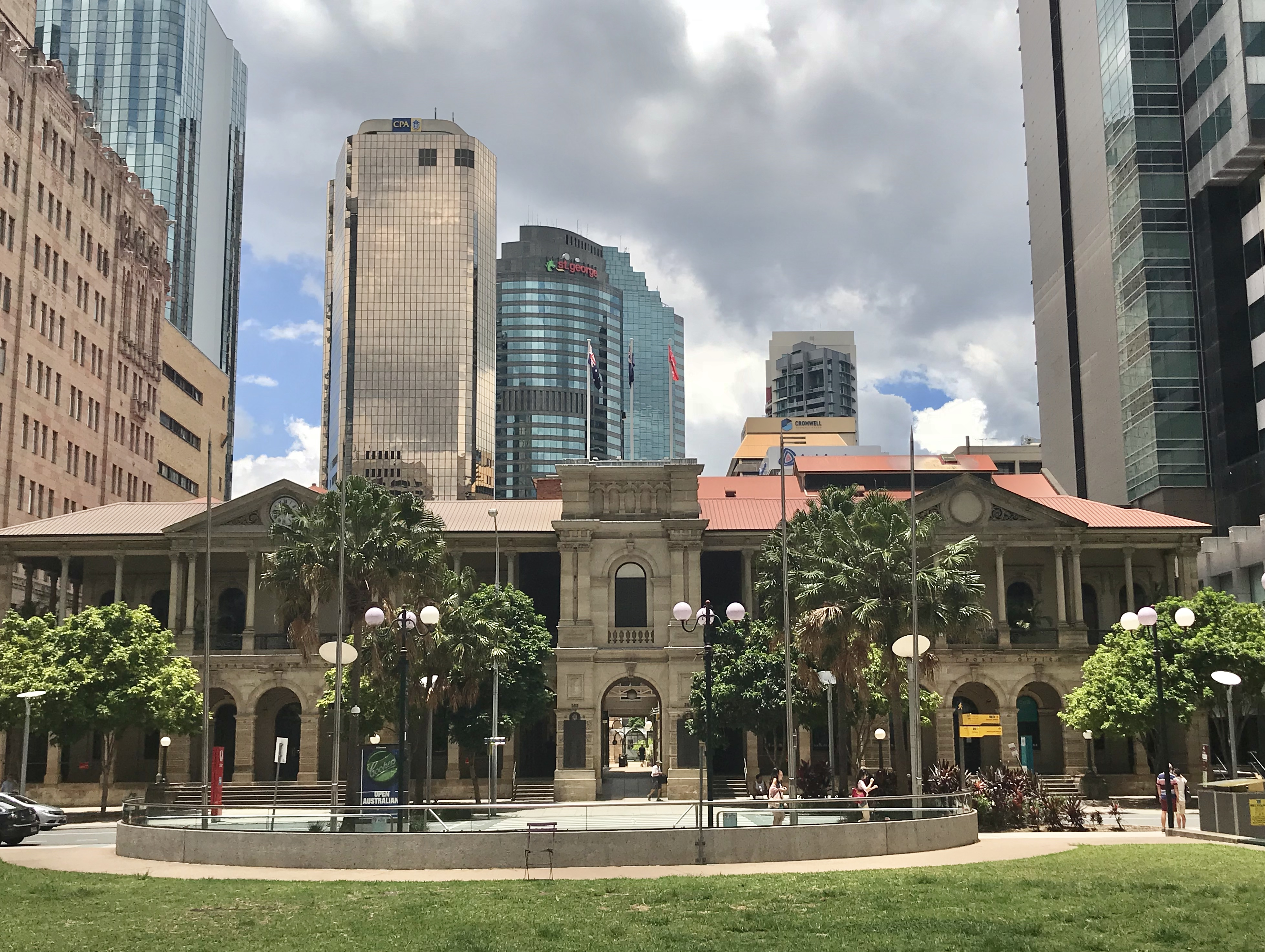 General Post Office seen from Post Office Square, Brisbane